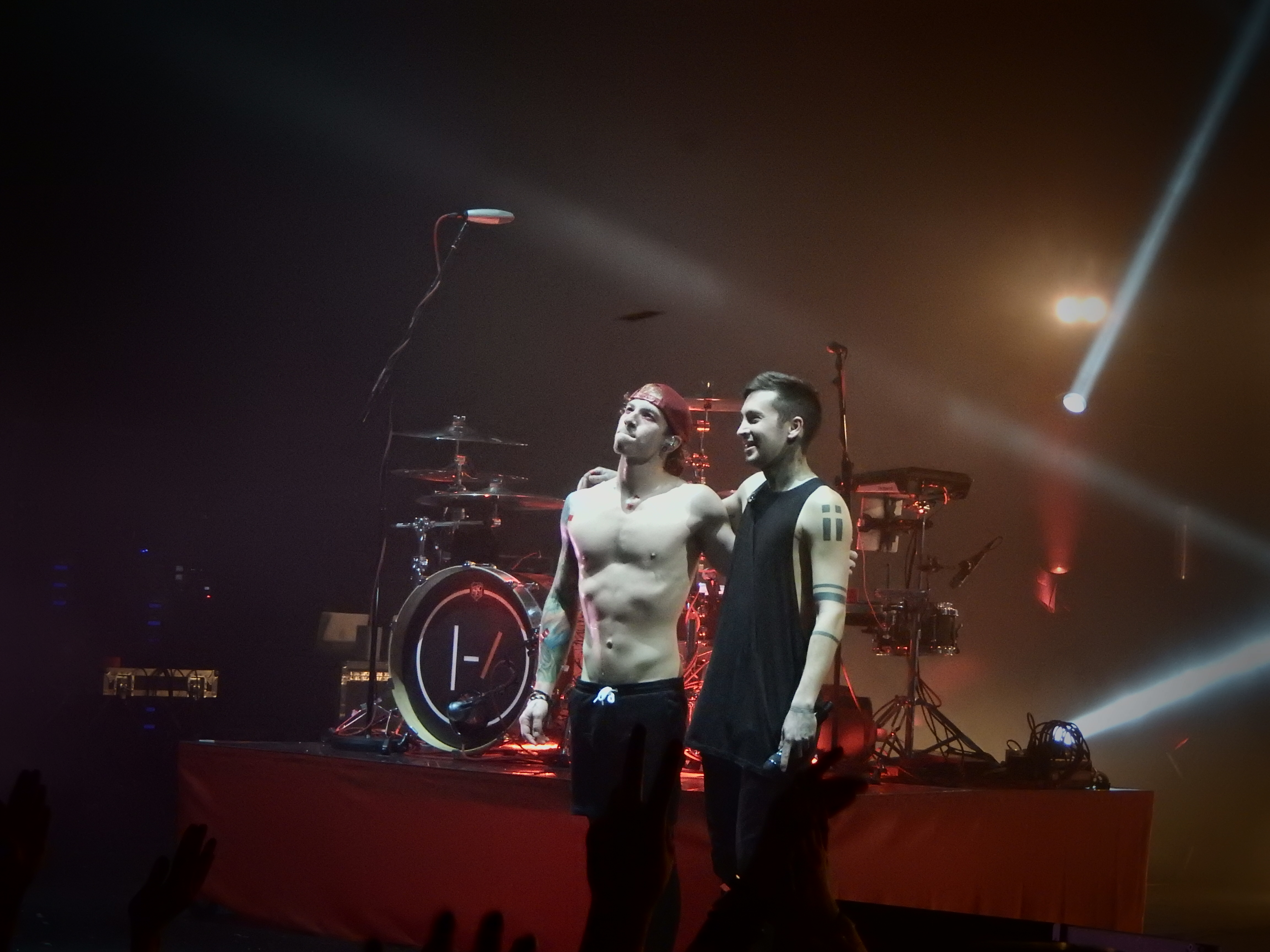 Twenty One Pilots, Brixton Academy, London